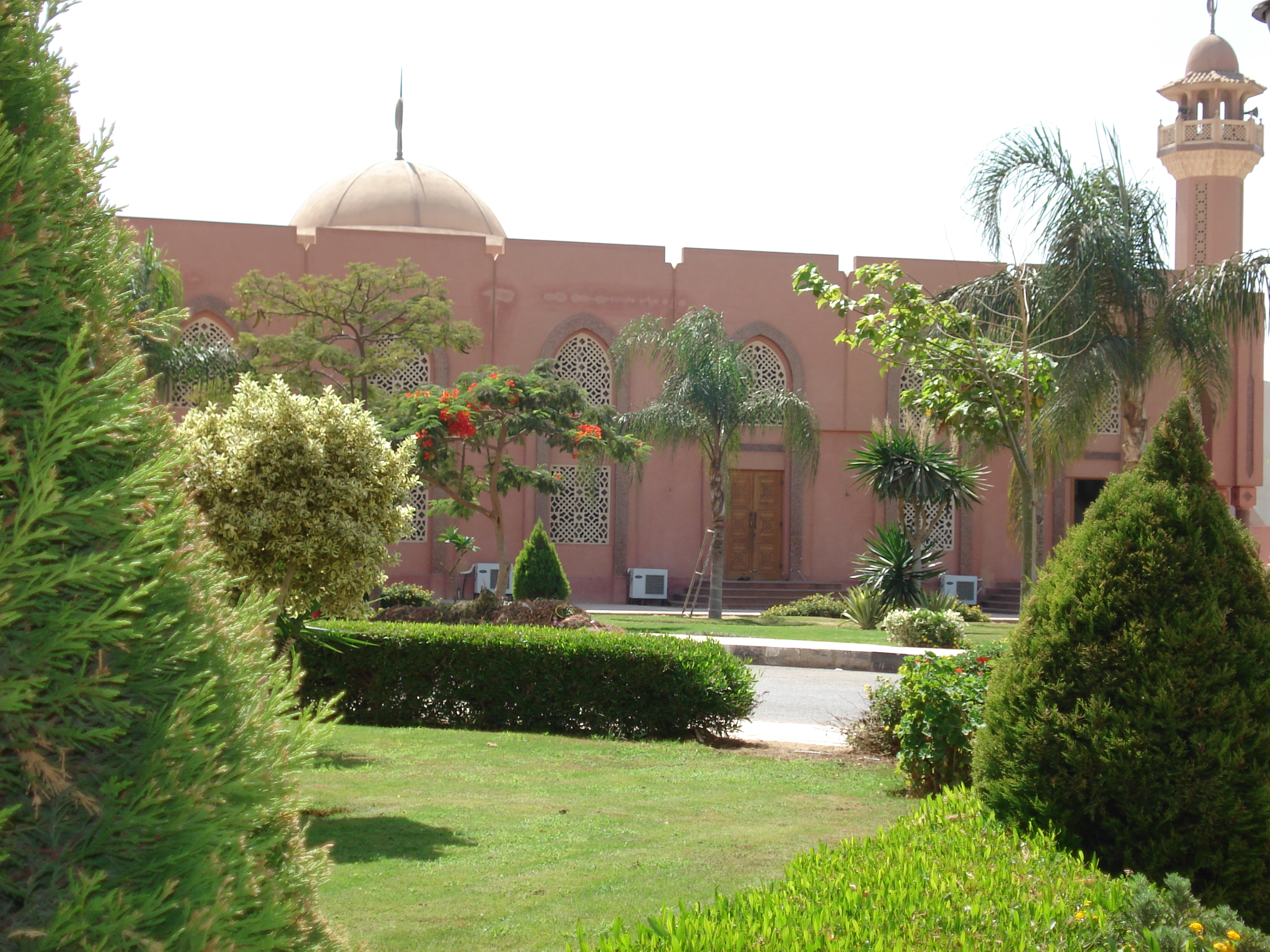 An example of a Mosque in Al-Rehab City. This one is known as the 'Red mosque'.